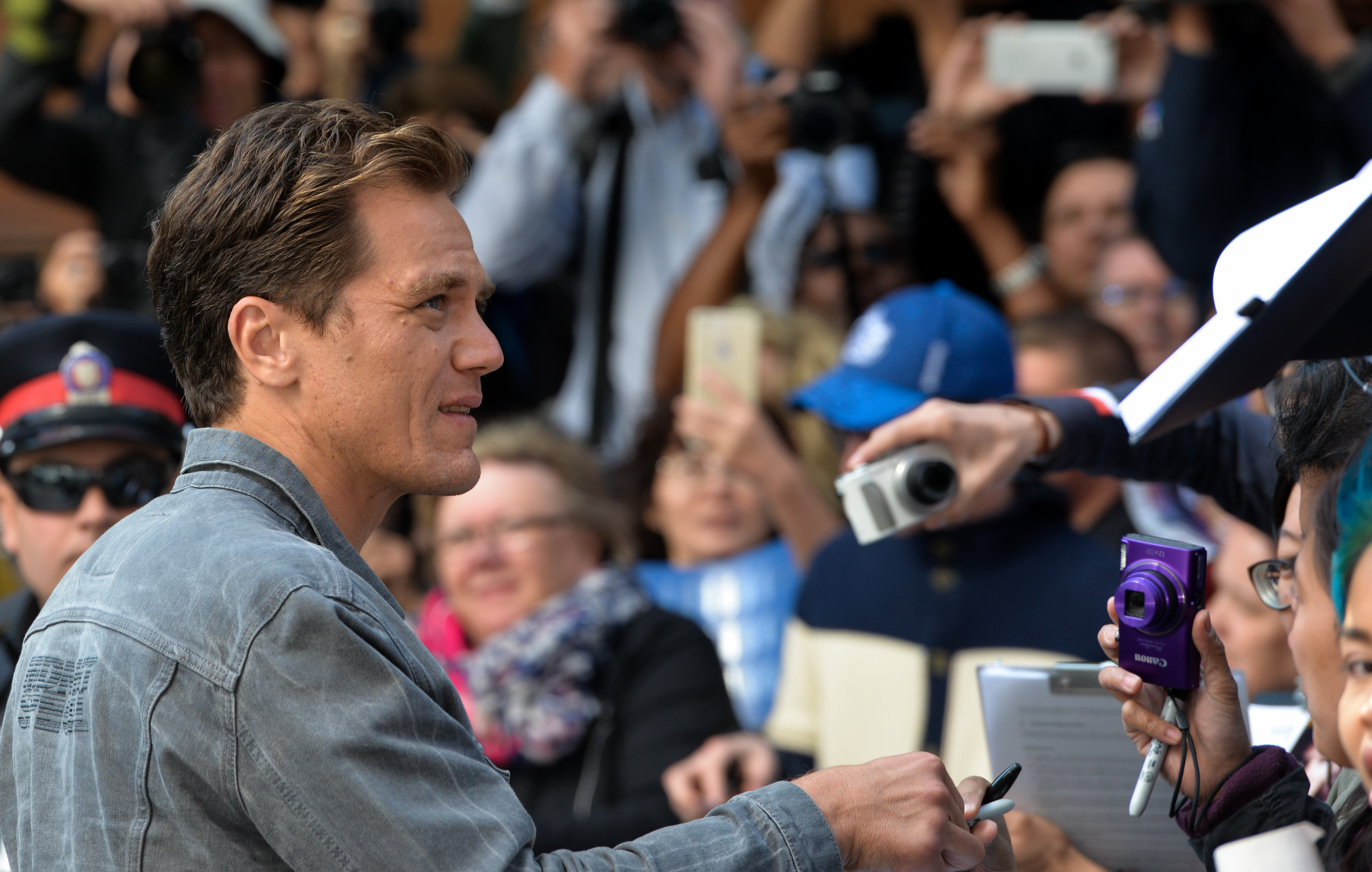 TIFF 2017 Michael Shannon